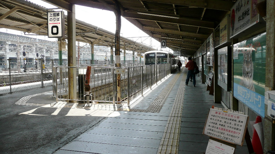 Platform 0 of Takasaki Station, Joshin Line